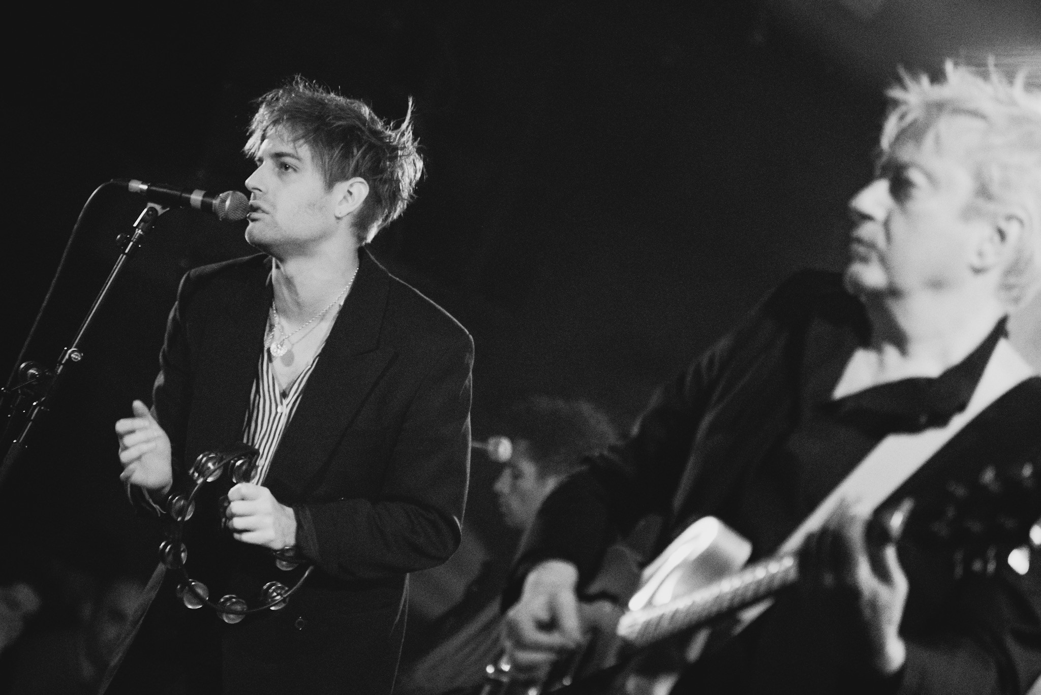 Rockaway Beach: Gang Of Four